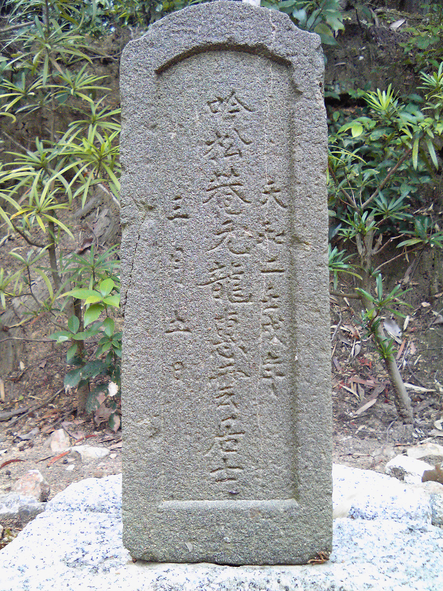 Myoko-ji in Ukyo-ku, Kyoto, Kyoto Prefecture, Japan